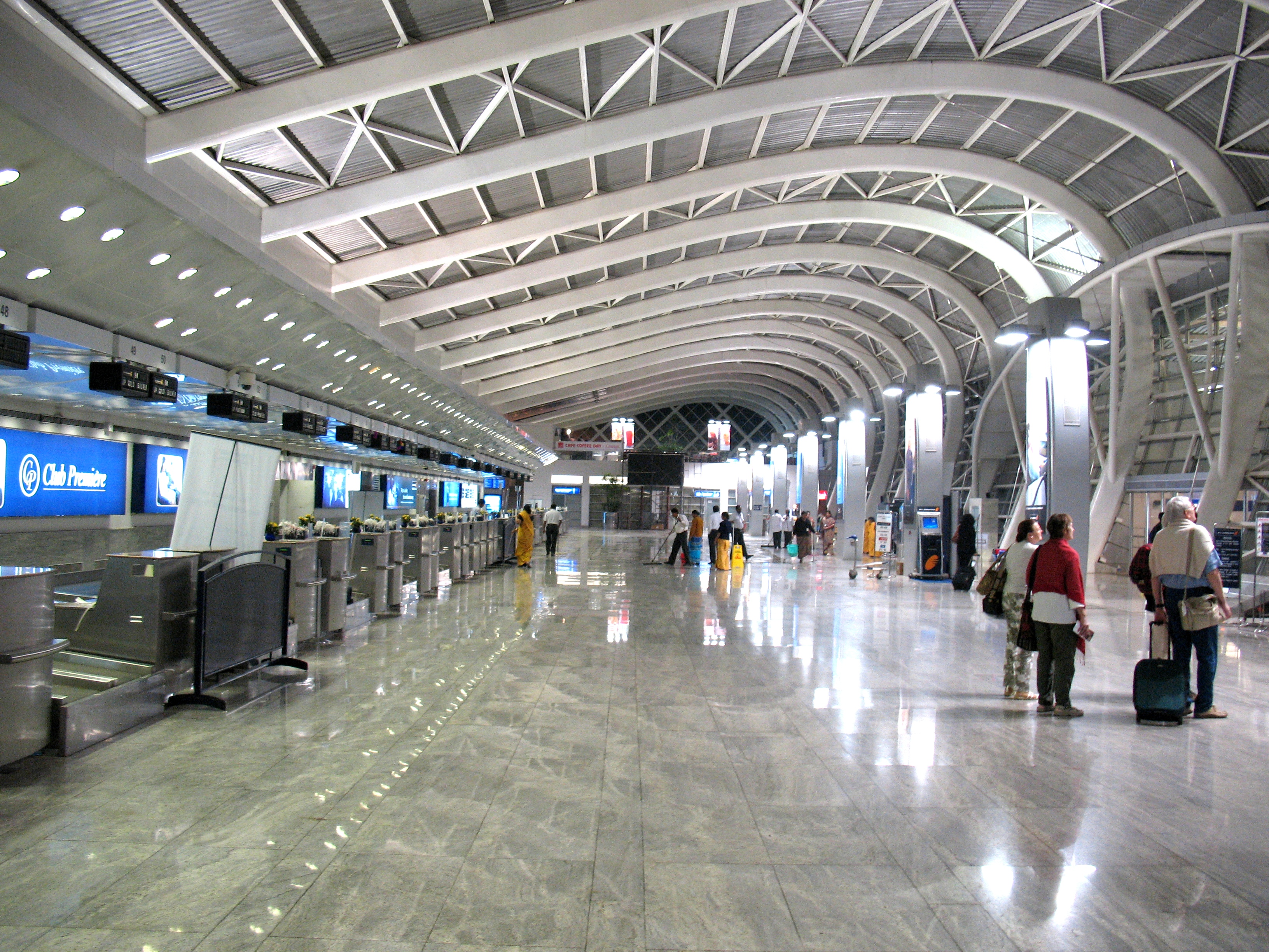 Interior of Chhatrapati Shivaji International Airport in Mumbai